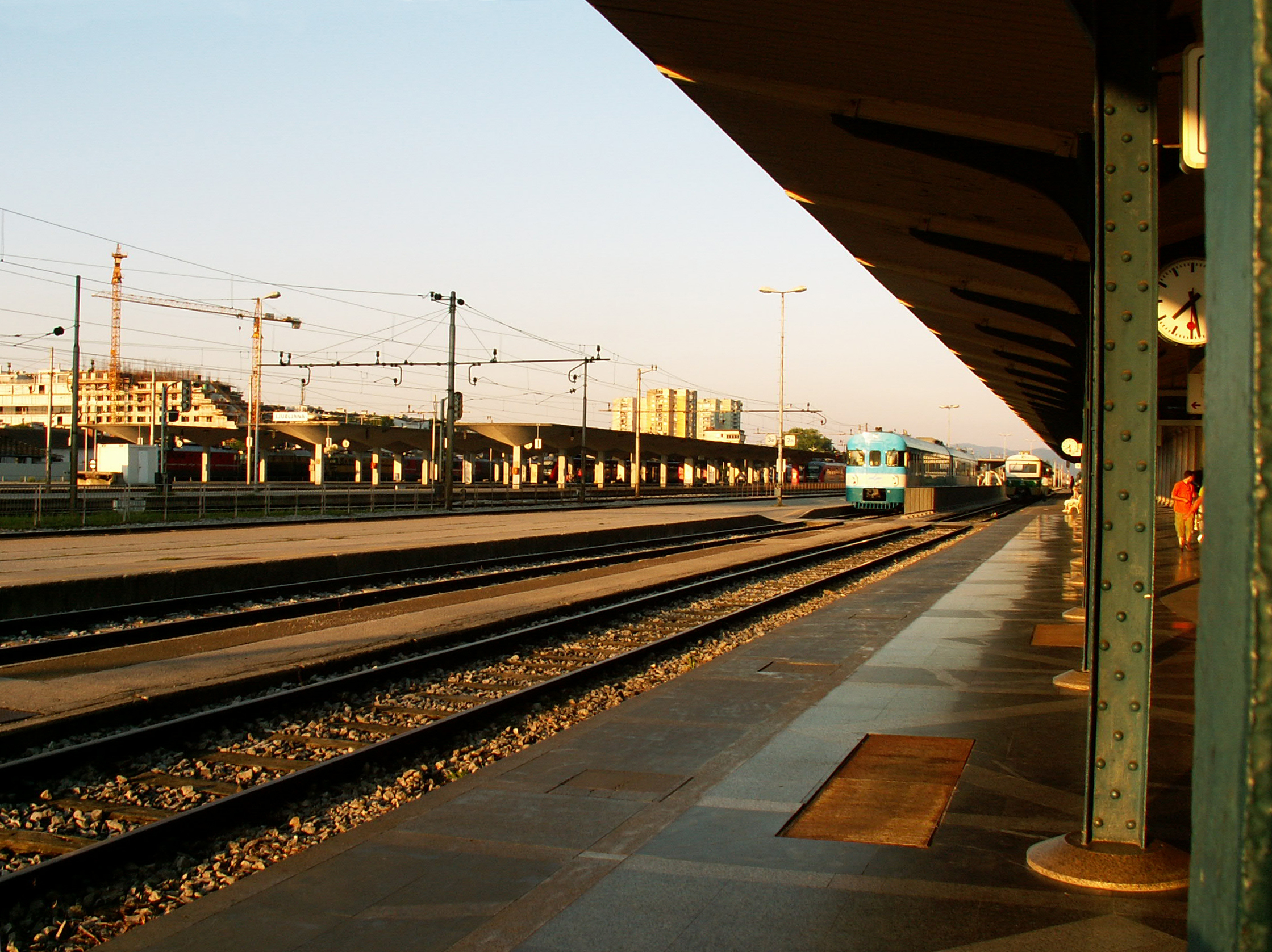 Ljubljana Main train station